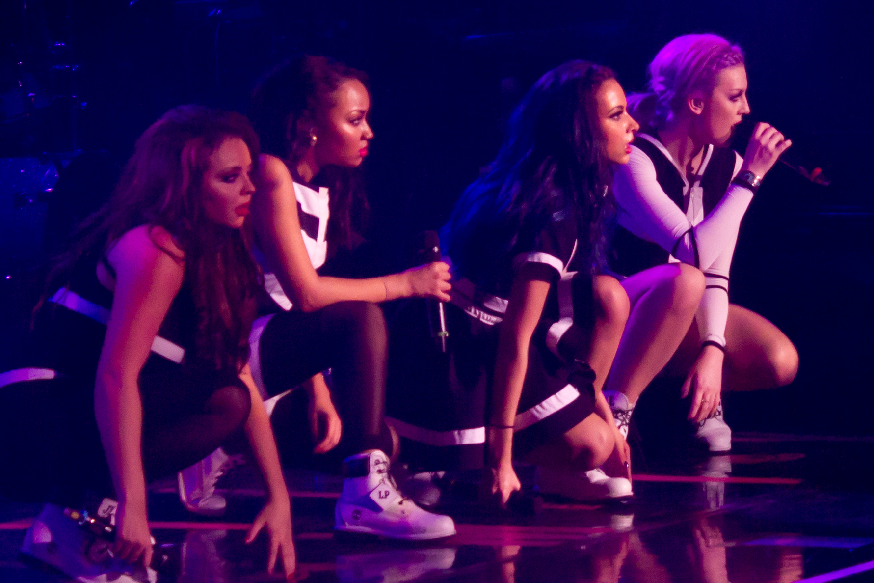 Little Mix performing "DNA"